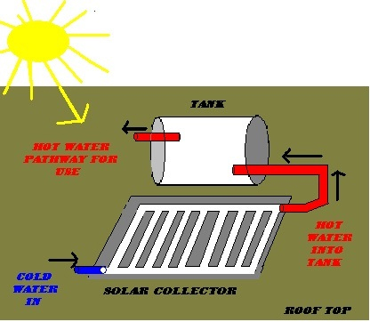 Gravity-feed system